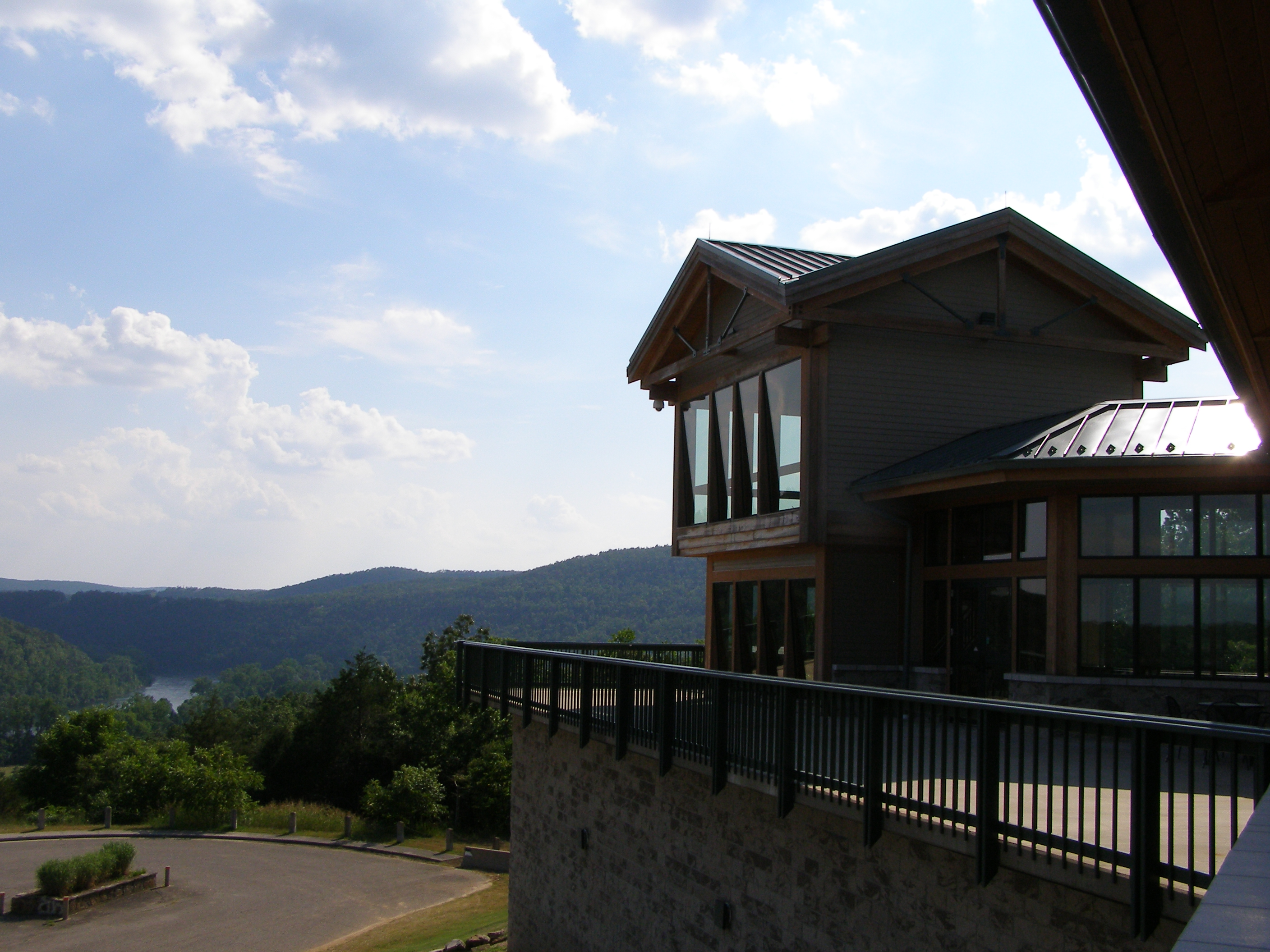 From flickr: Visitors center overlooking Bull Shoals State Park, Arkansas.